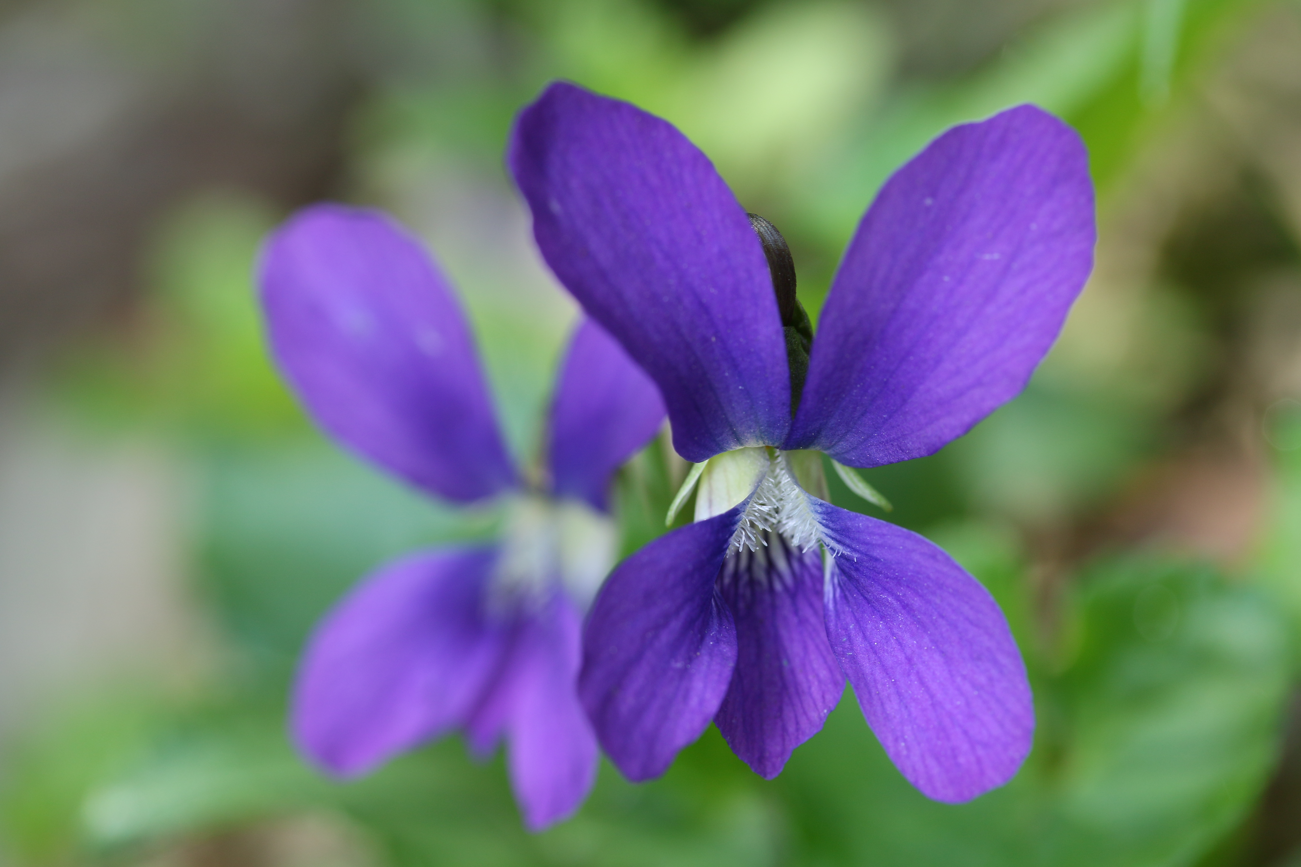 Viola sororia in Yokohama, Japan